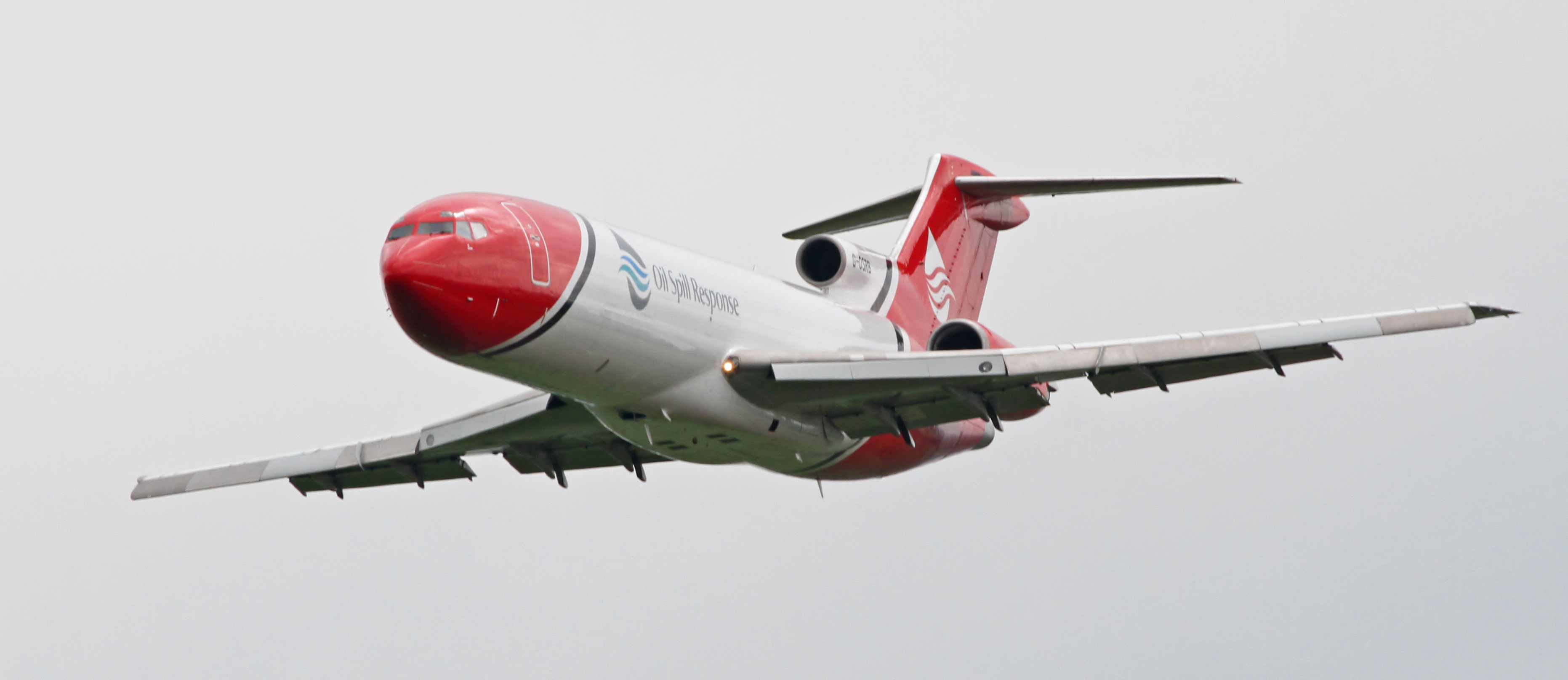 T2 Aviation Boeing 727-2S2F(A)(RE)